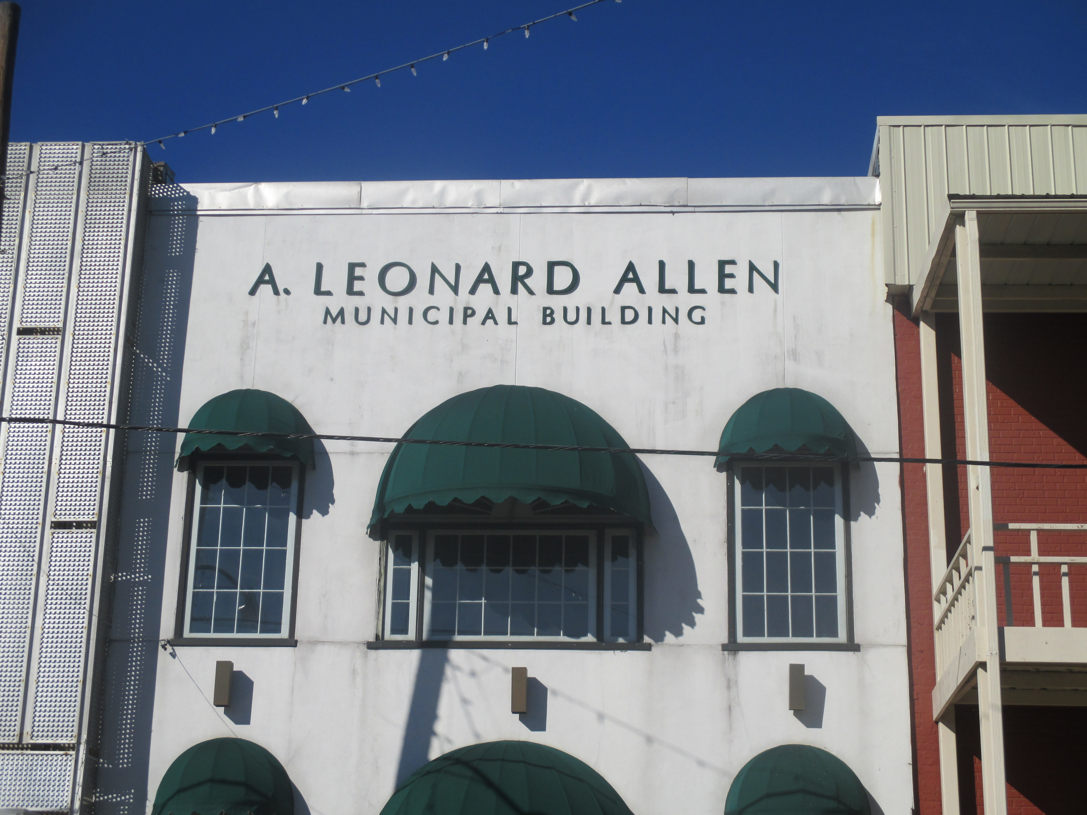 I took photo of A. Leonard Allen Municipal Building in Winnfield, LA, using Canon camera.